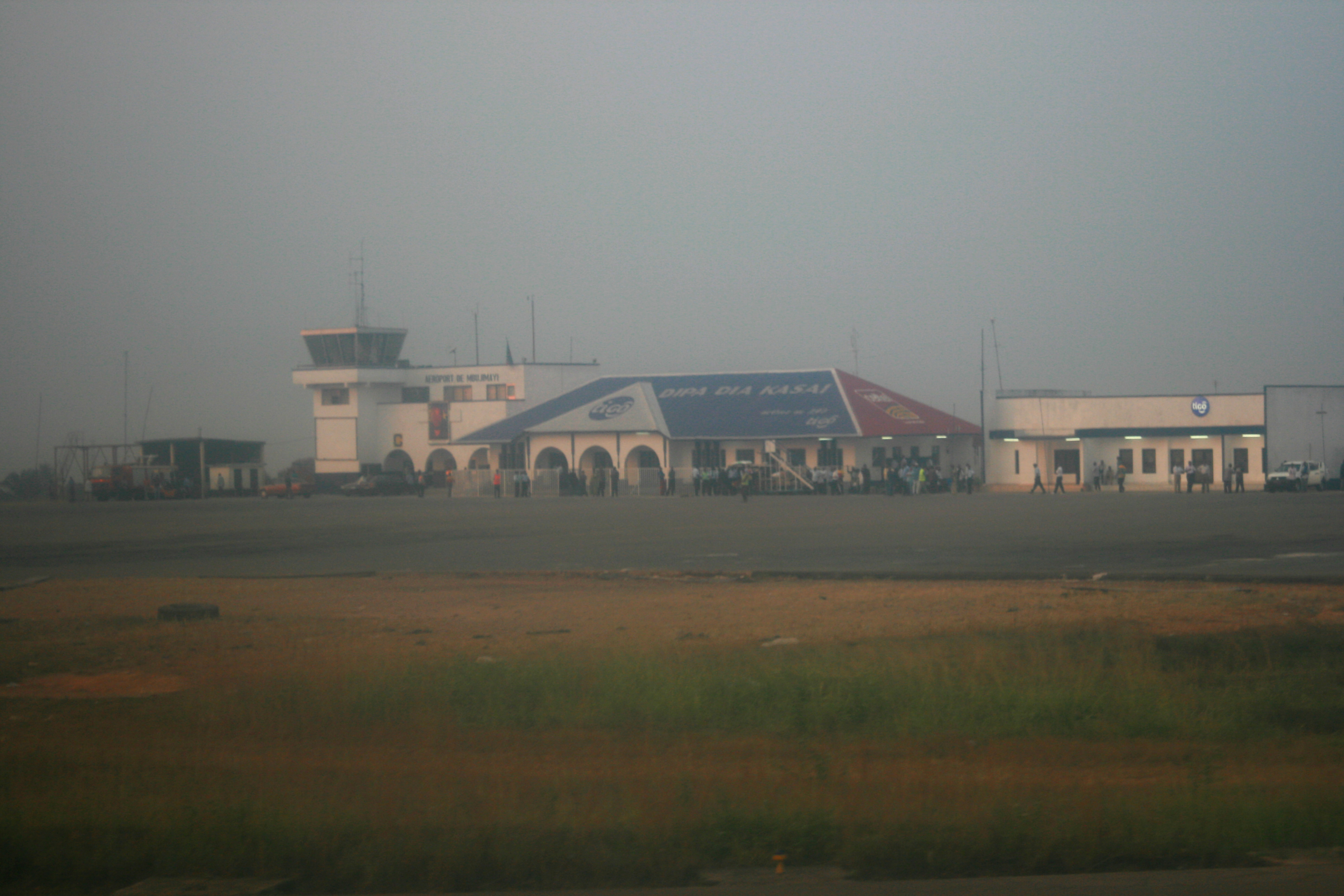 Mbuji-Mayi Airport in Mbuji-Mayi, Democratic Republic of Congo